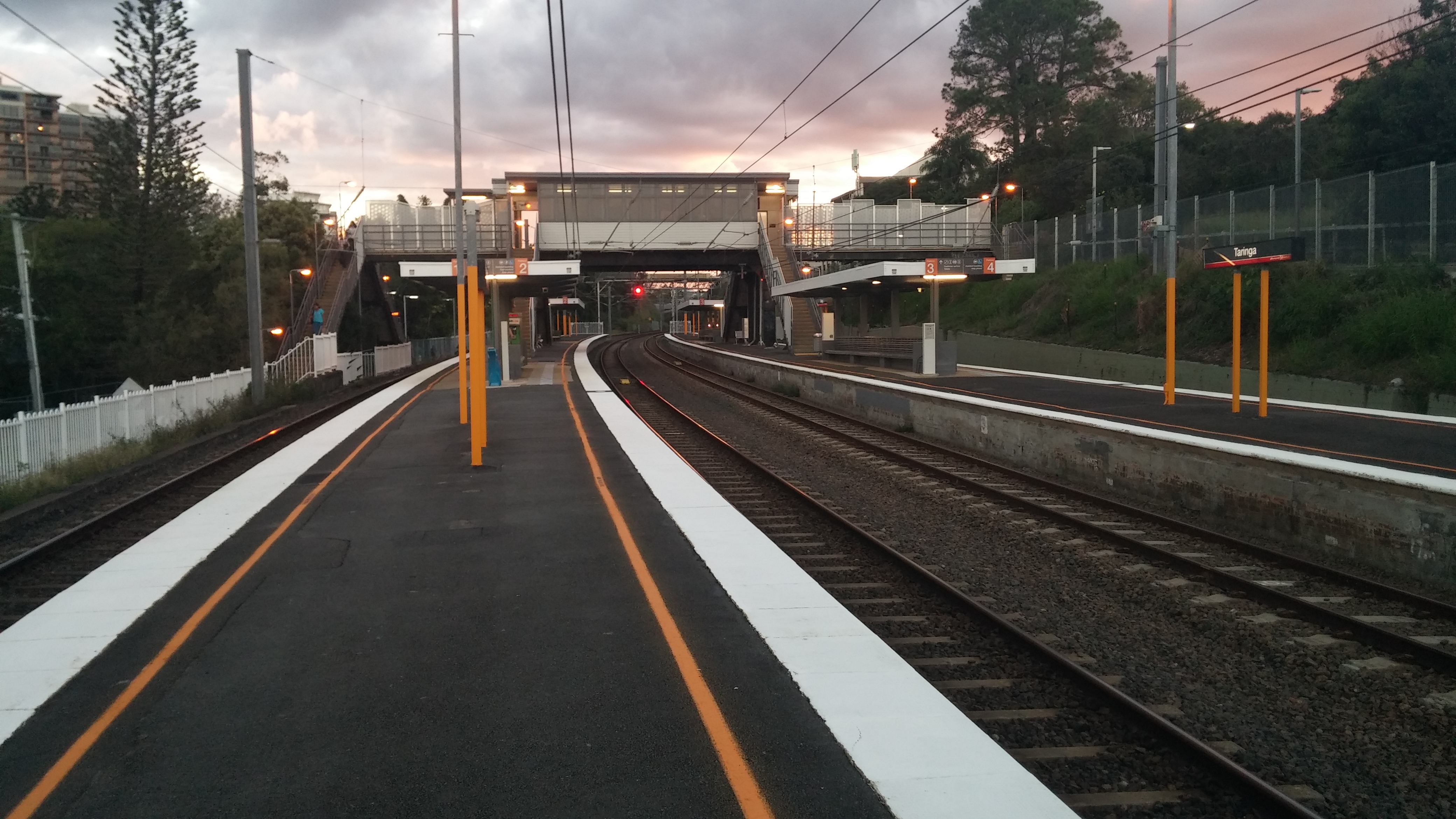 Taringa station on the Ipswich/Springfield line.